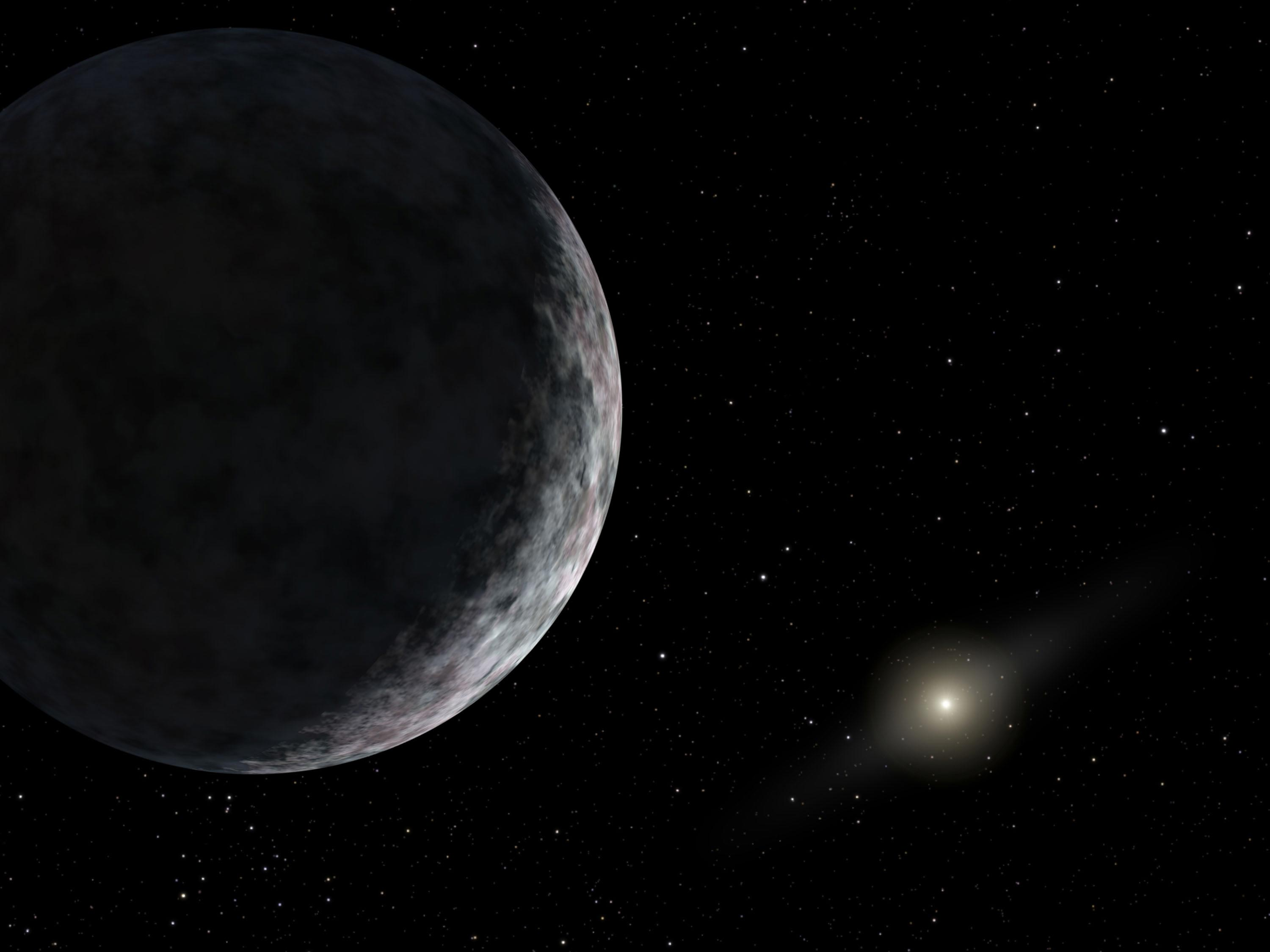 Artist's impression of possible 10th planet w:2003 UB313, with the Sun in the distance.